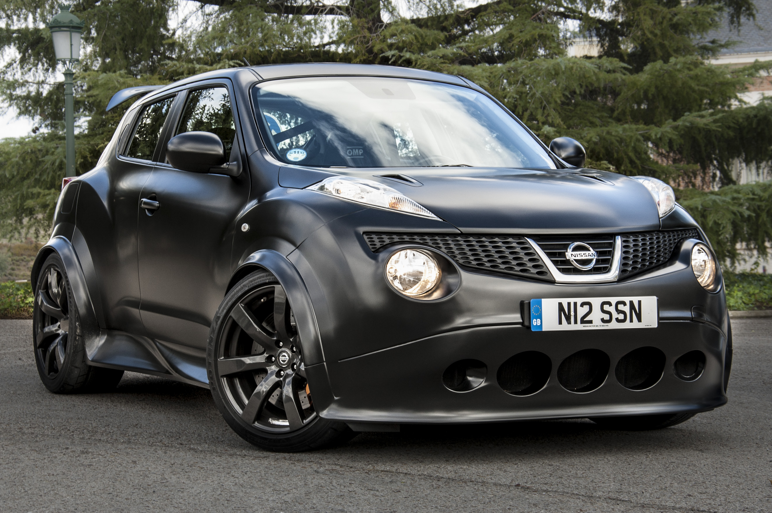 Test Drive. Nissan Juke-R - Right Hand Drive Prototype. Test Drive del Nissan Juke-R